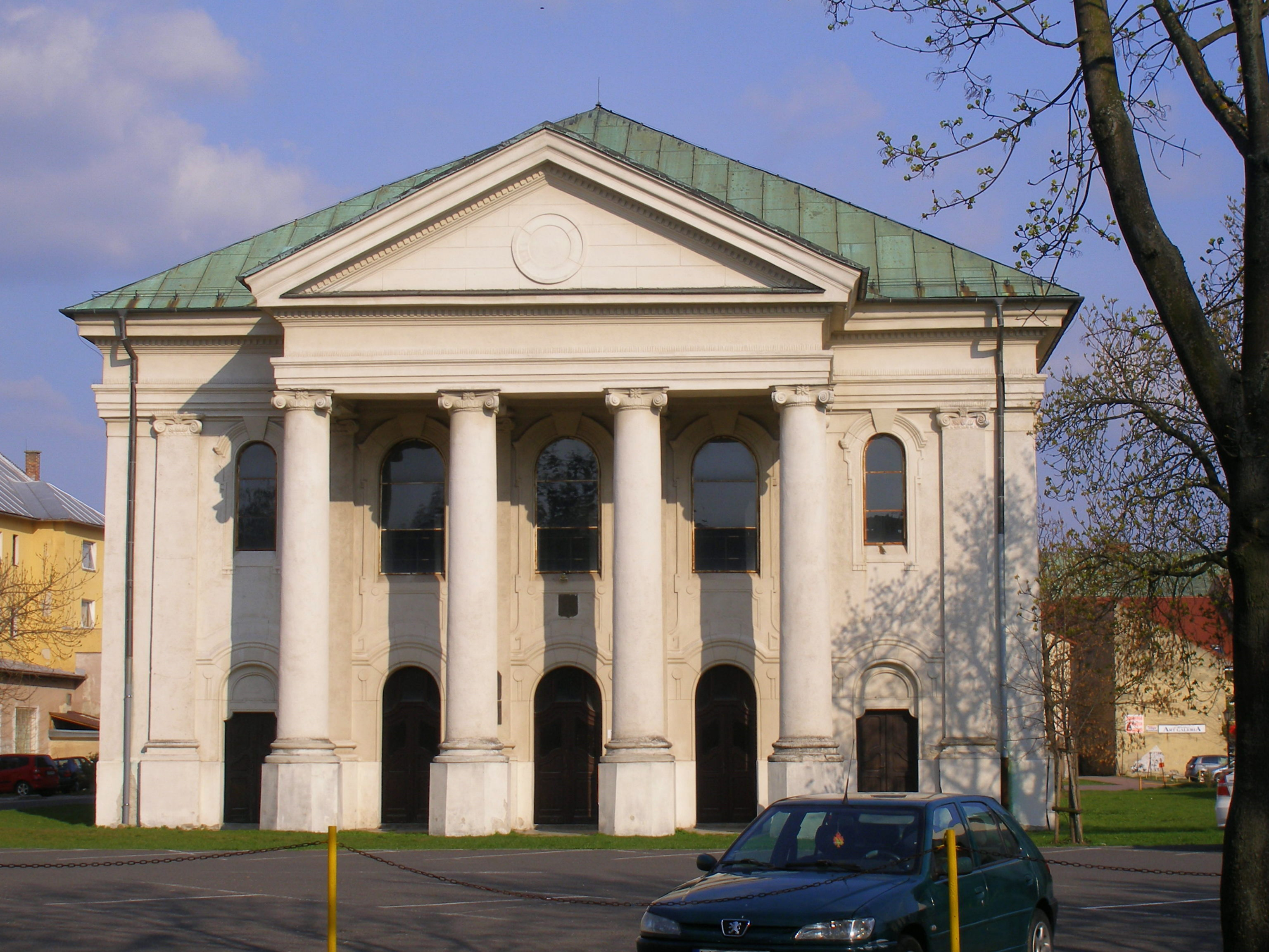 Mesto Liptovský Mikuláš. Slovensko, This medium shows the protected monument with the number 505-335/0 in the Slovak Republic.